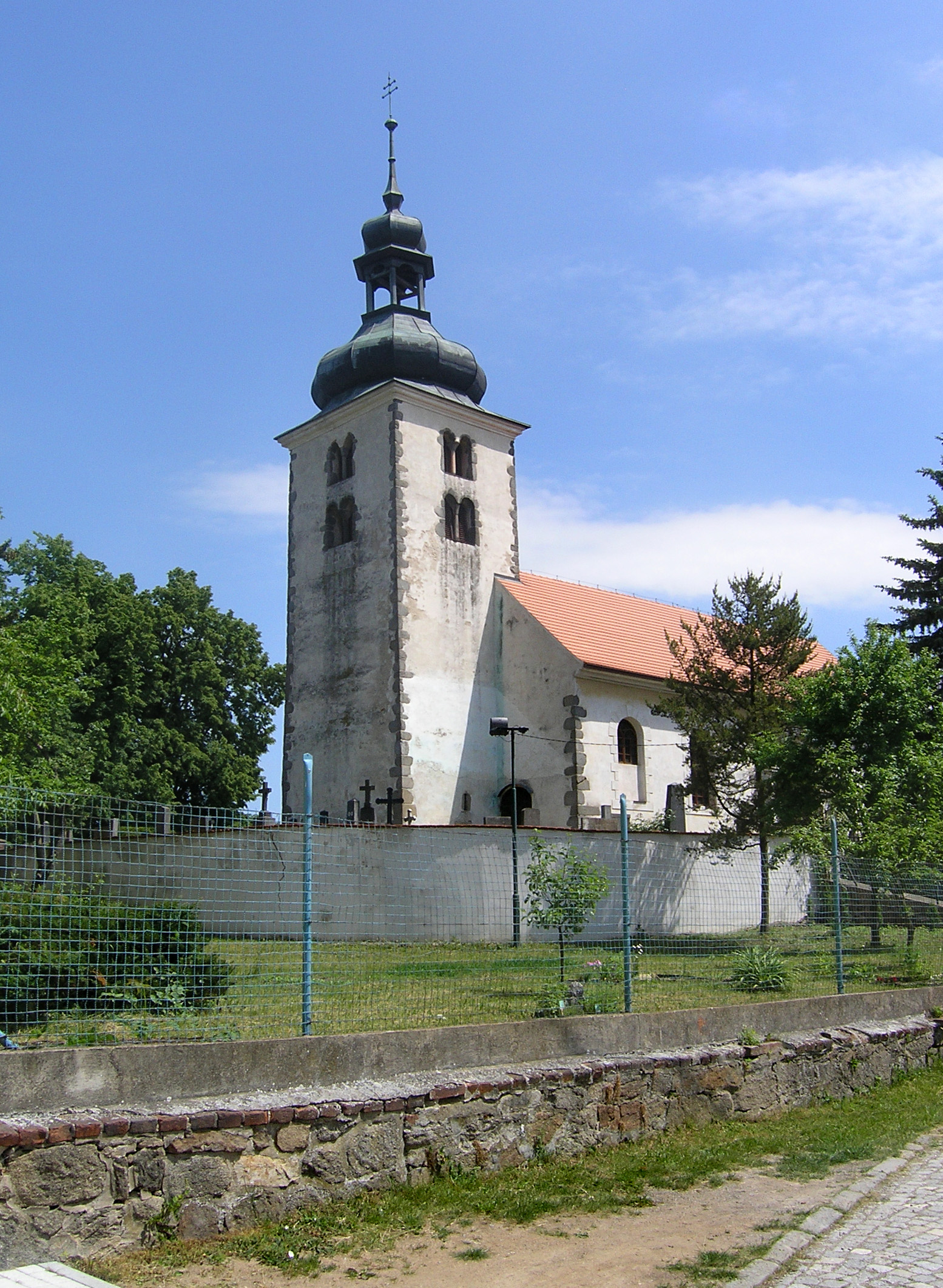 All Saints Church in Olbramovice, Czech Republic.